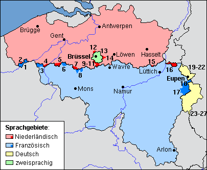 Map of Belgian municipalities with language facilities for speakers of the minority language. German version.